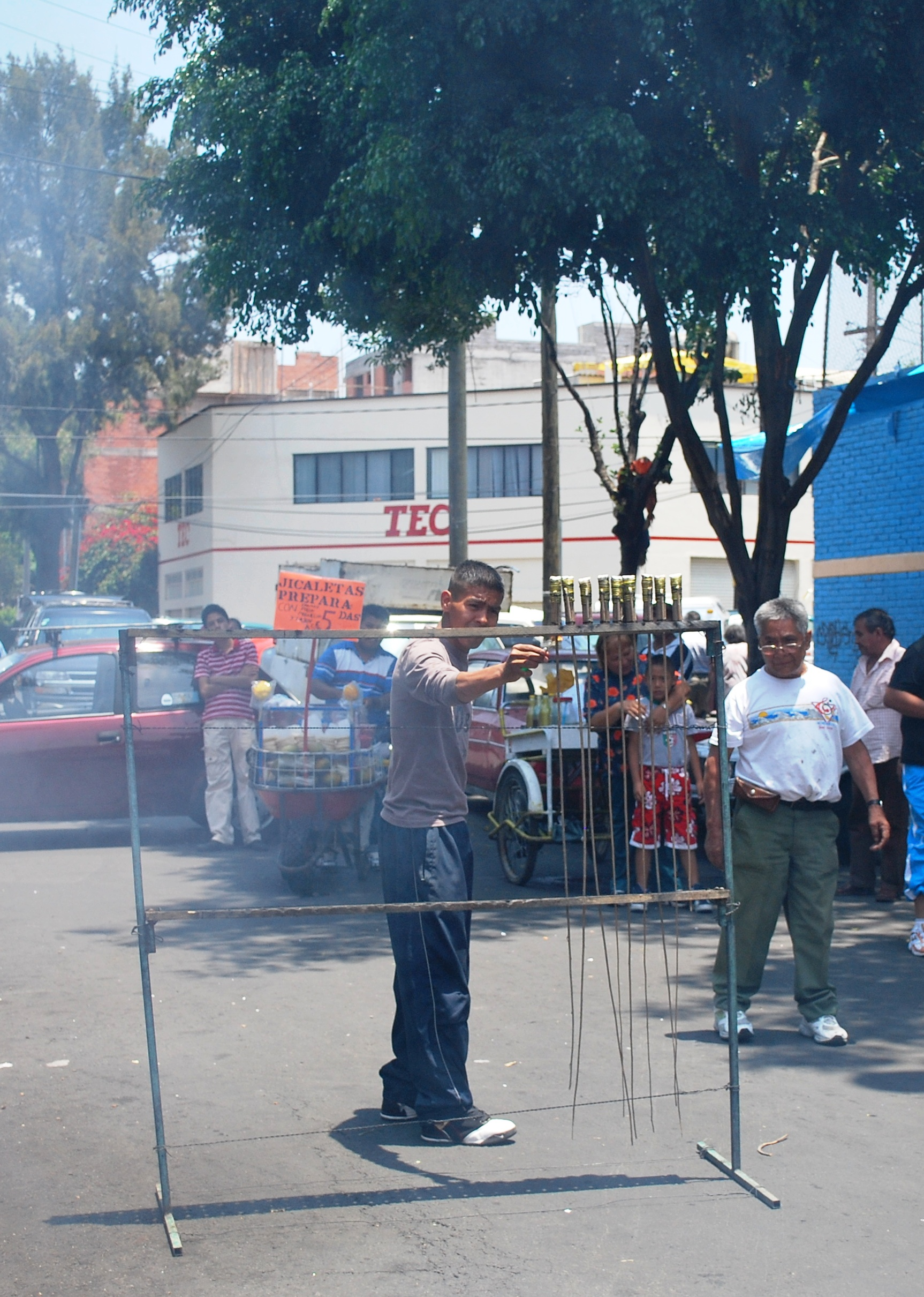 Lighting fireworks at the Feast of the Virgin of San Juan de los Lagos in Colonia Doctores, Mexico City